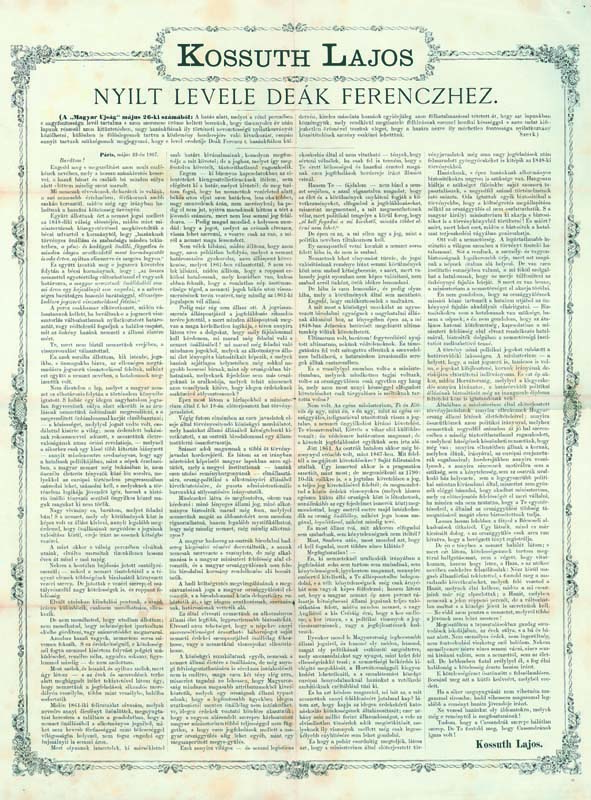 Cassandra letter of Lajos Kossuth